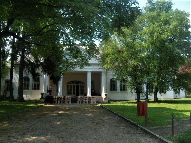 Kastel is a small castle (or villa) in village Panonija, near Backa Topola in Serbia. Picture is taken in may 2011. Srpski (latinica): Dvorac Kastel u selu Panonija, nedaleko od Backe Topole. Foto iz maja, 2011. sa Markovdanskih susreta dece i pesnika.